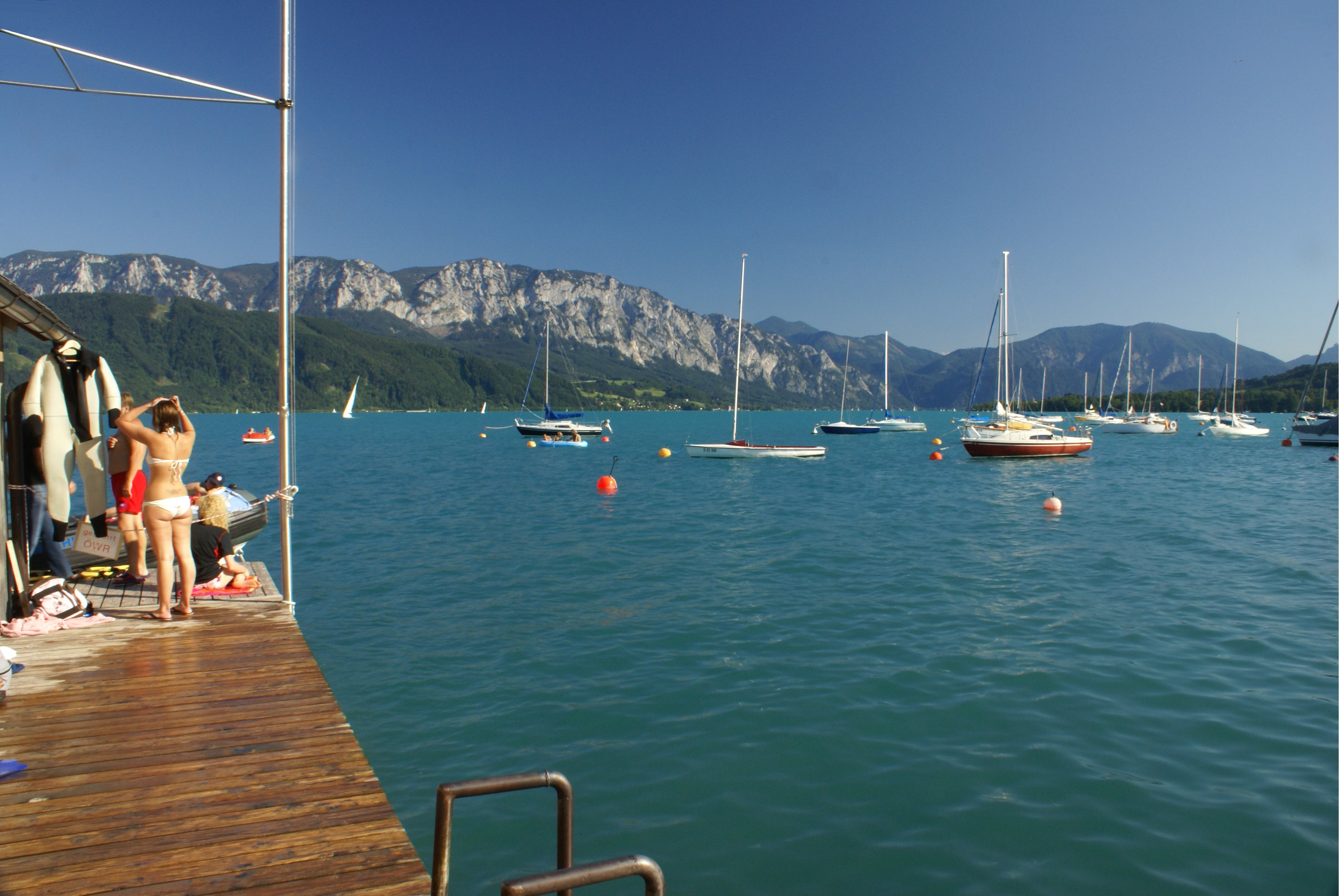 Lake Attersee at the Nußdorf (west shore) landing stage and public recreation area.